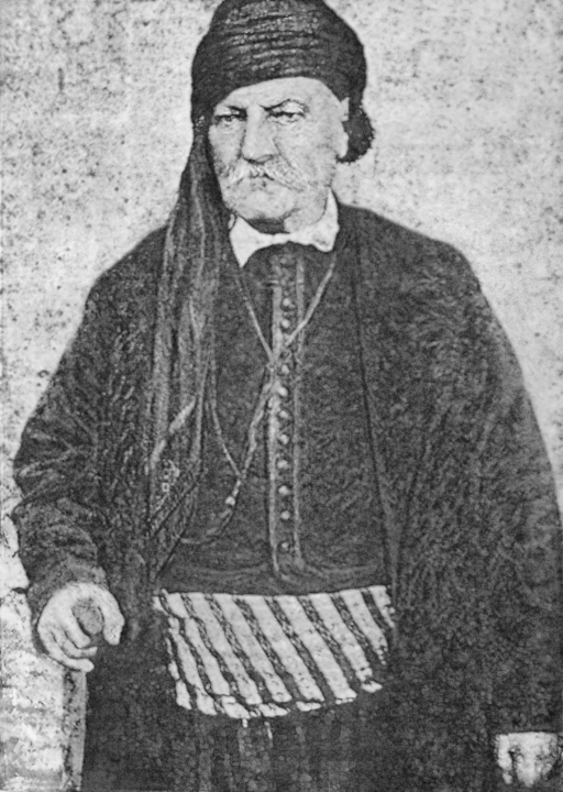 Tanyus Shahin, Sheikh (Master) of men in the Lebanese village of Rayfoun and leader of the peasant revolution on the Feudals in 1859. He was in his 40's and worked as a smith.